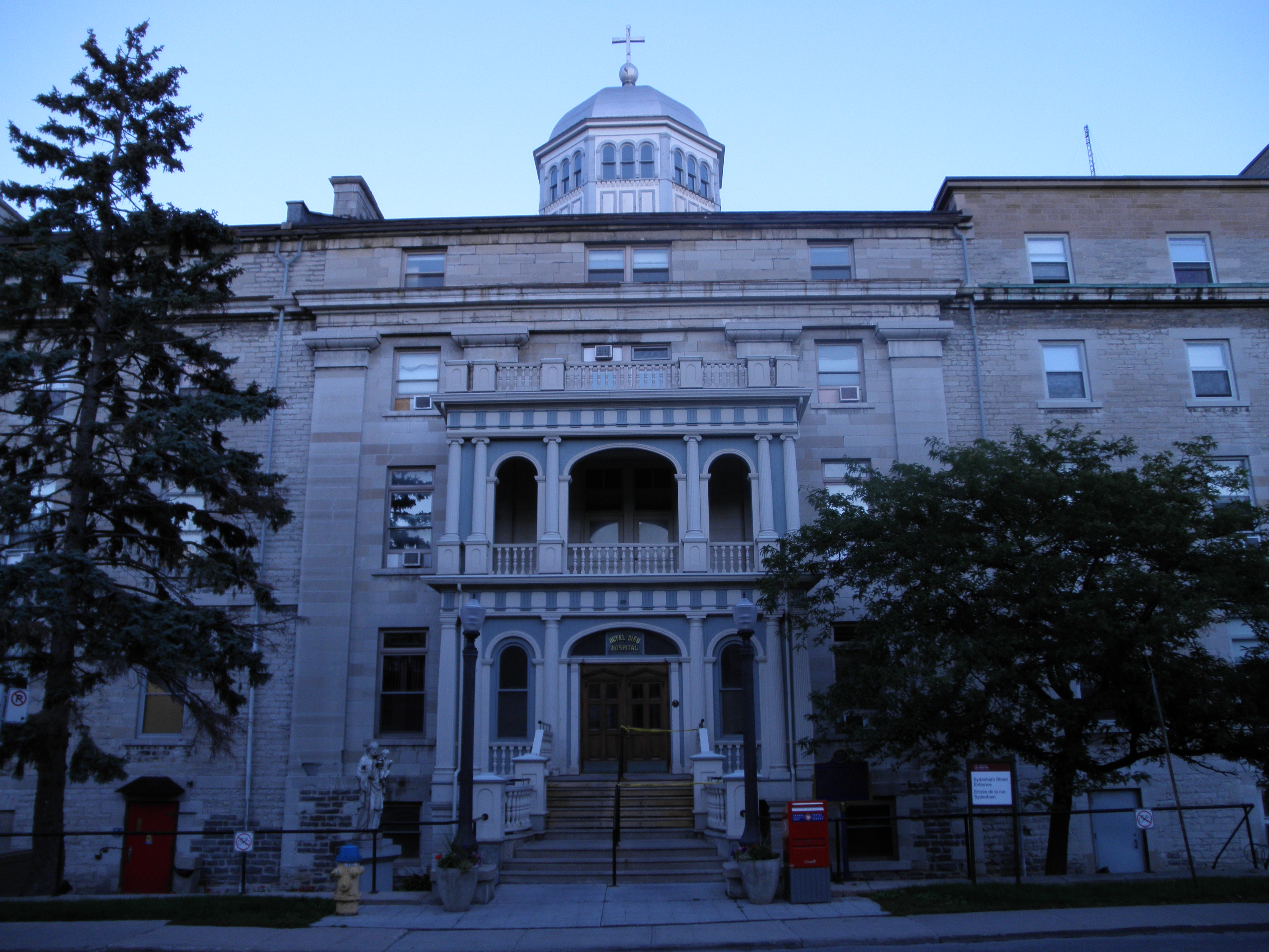 Hôtel-Dieu, Kingston. In 1892, the hospital was moved to its present location on Sydenham Street, which formerly housed Regiopolis College.